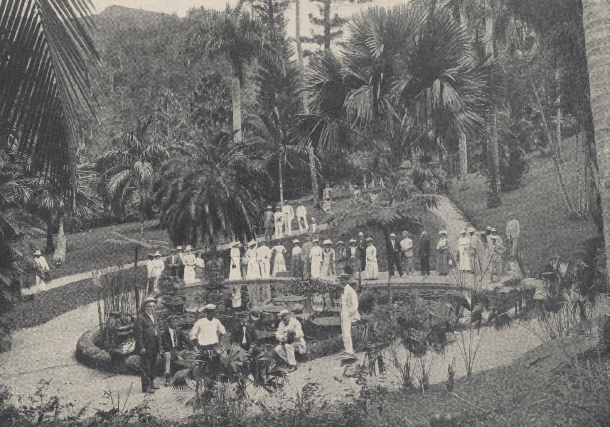 Well dressed staff of the United Fruit Company pose for their picture in Jamaica, around the 1910s. This photo was published in a 47 page 15cm UFC book, Jamaica via the great white fleet. Published in 1913.